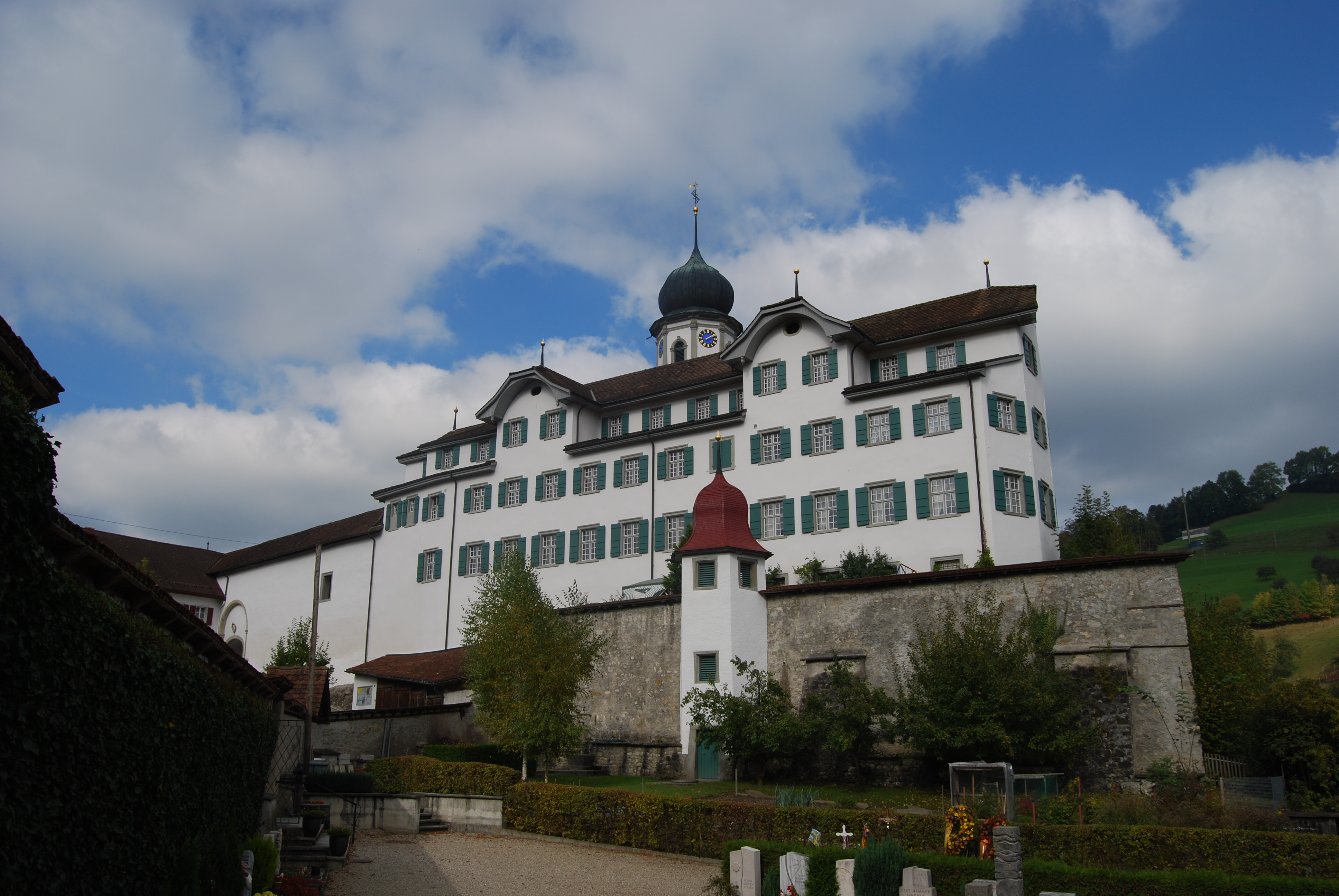 Monastery and Church of Werthenstein, canton of Luzern, SwitzerlandEsperanto: Monaĥejo kaj preĝejo de Werthenstein, Kantono Lucerno, Svislando